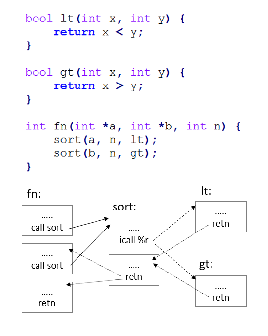 Control-flow transfers in sample program.